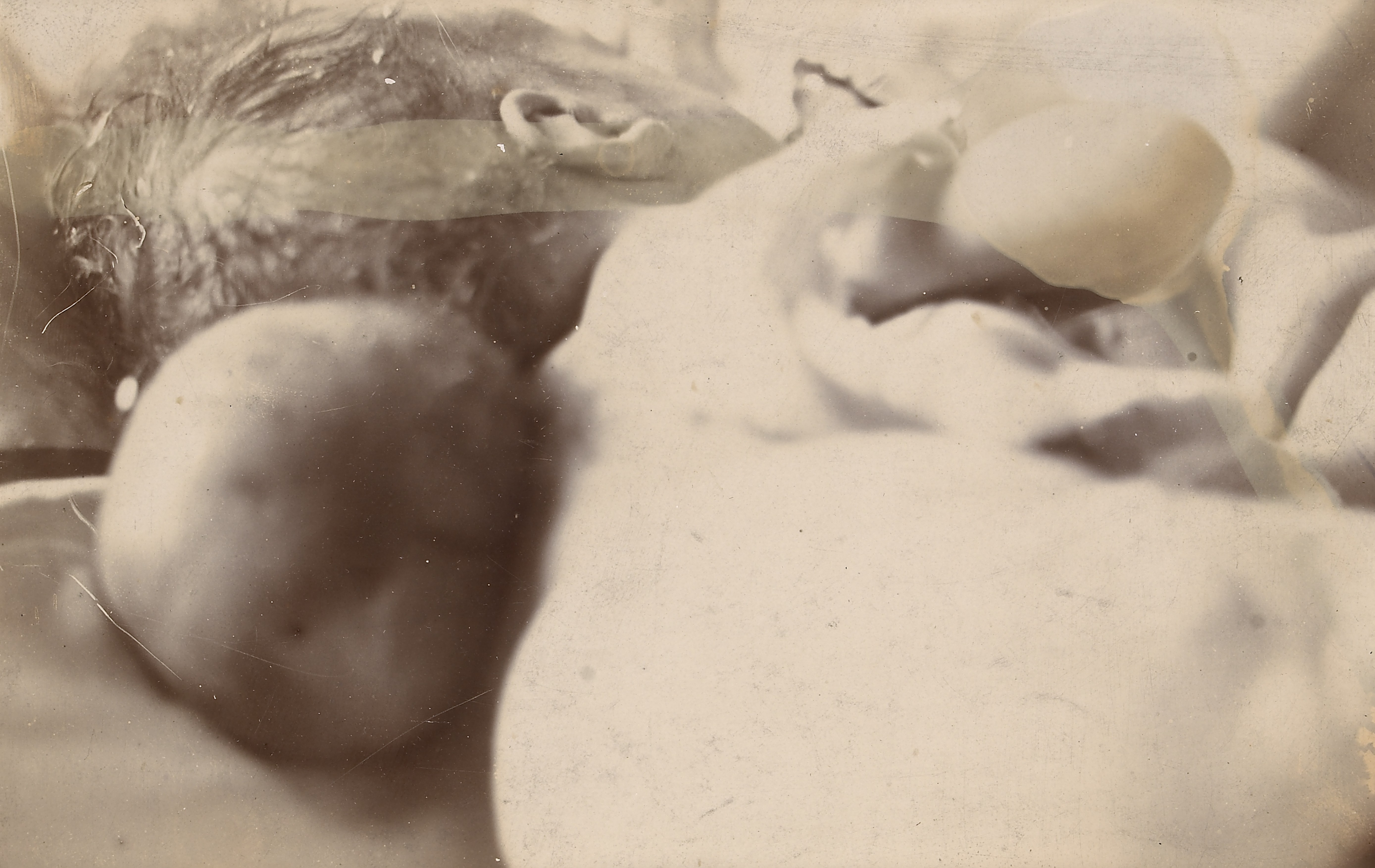 Black and white photograph showing a congenital occipital encephalocele. The patient was an infant of two months. The encephalocele was excised, but the child died shortly after the operation. The autopsy showed that the herniated brain-matter came through a hole of about half an inch in diameter, situated two inches below the upper extremity of the occipital bone. The cavity of the encephalocele communicated with the lateral ventricles. The foramen magnum was partially deficient behind, as were the arches of the atlas and axis vetrebrae. The cerebellum lay in a funnel shaped depression formed by this deficiency. Medical Photographic Library